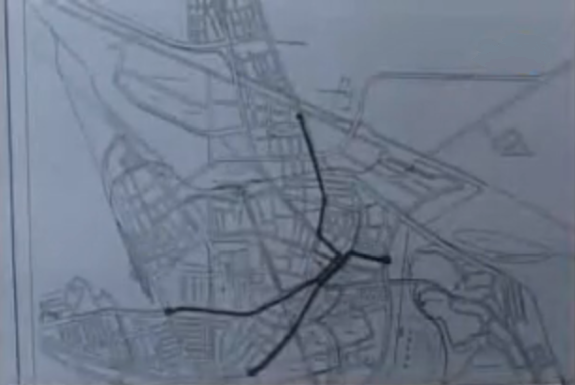 Map that shows the small system of the Novi Sad tram in 1911.